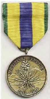 Solo image of Army Mexican Service Medal from